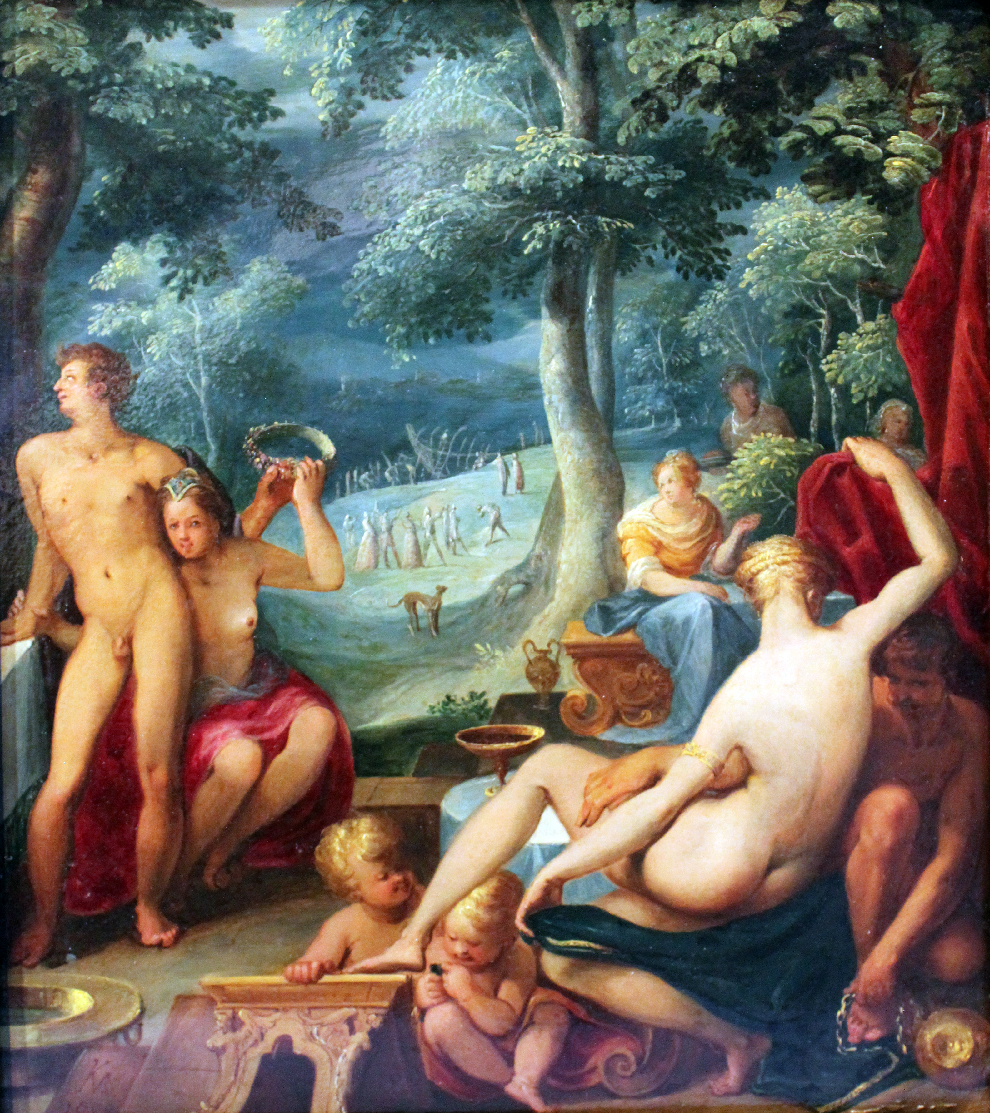 Before the Flood